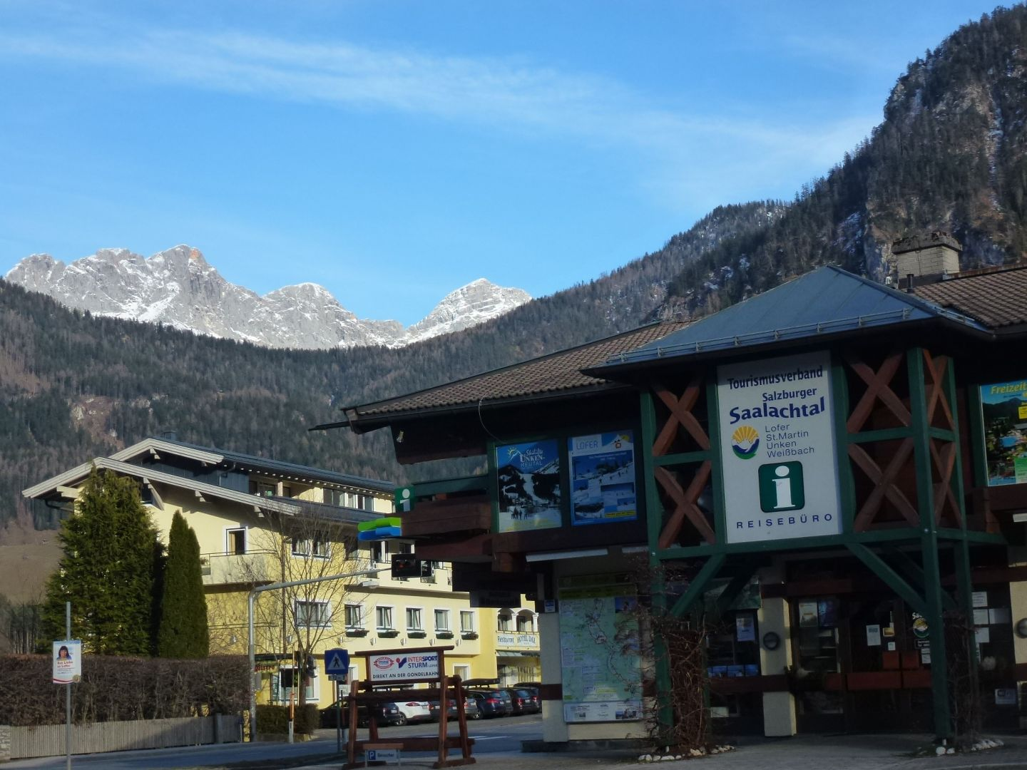 Touristeninformation in Lofer